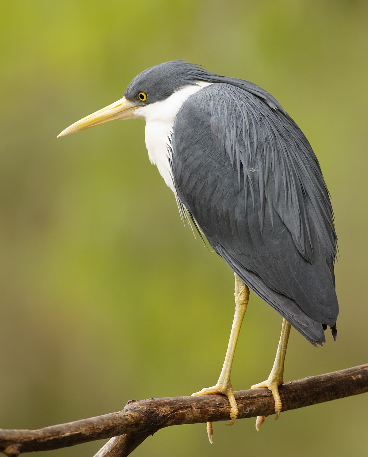 Pied Heron (Ardea picata), Great Flight Aviary, Melbourne Zoo, Melbourne, Victoria, Australia.